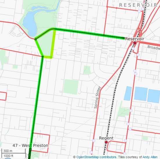 A map of the proposed extension to the Route 11 tram in Melbourne. Dark green (on the left) shows the current route, light green shows the proposed route, with two lighter greens showing possible routes in the middle of the route. Red lines show bus routes. Created with OpenStreetMap and .